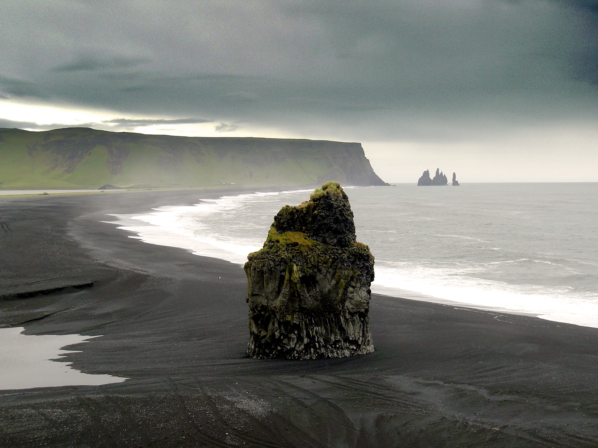 Iceland, rock, coast, sea, water